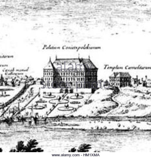 Koniecpolski Palace (today Presidential Palace). Detail of a Warsaw panorama, 1656.